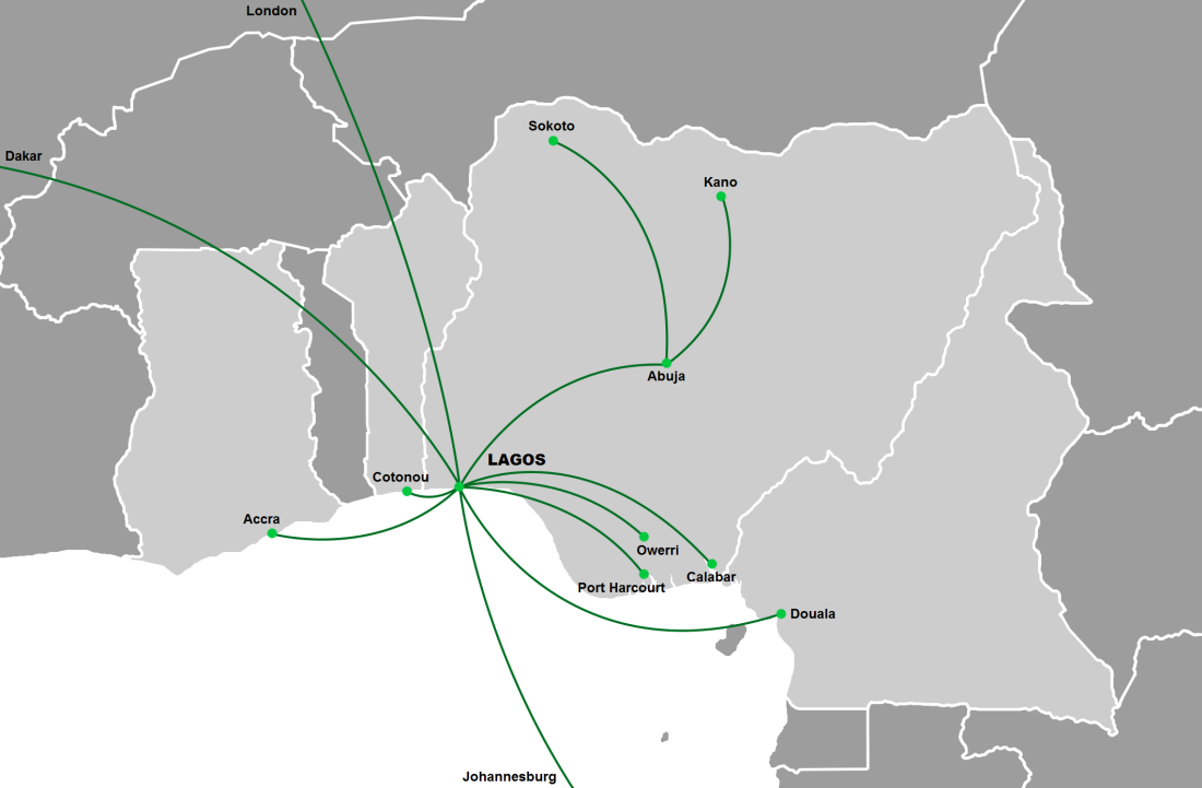 Map of routes flown by Virgin Nigeria Airways as of January 2008